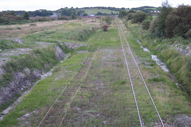 Peat Railway. A narrow gauge railway to transport peat to the power station at Shannonbridge.